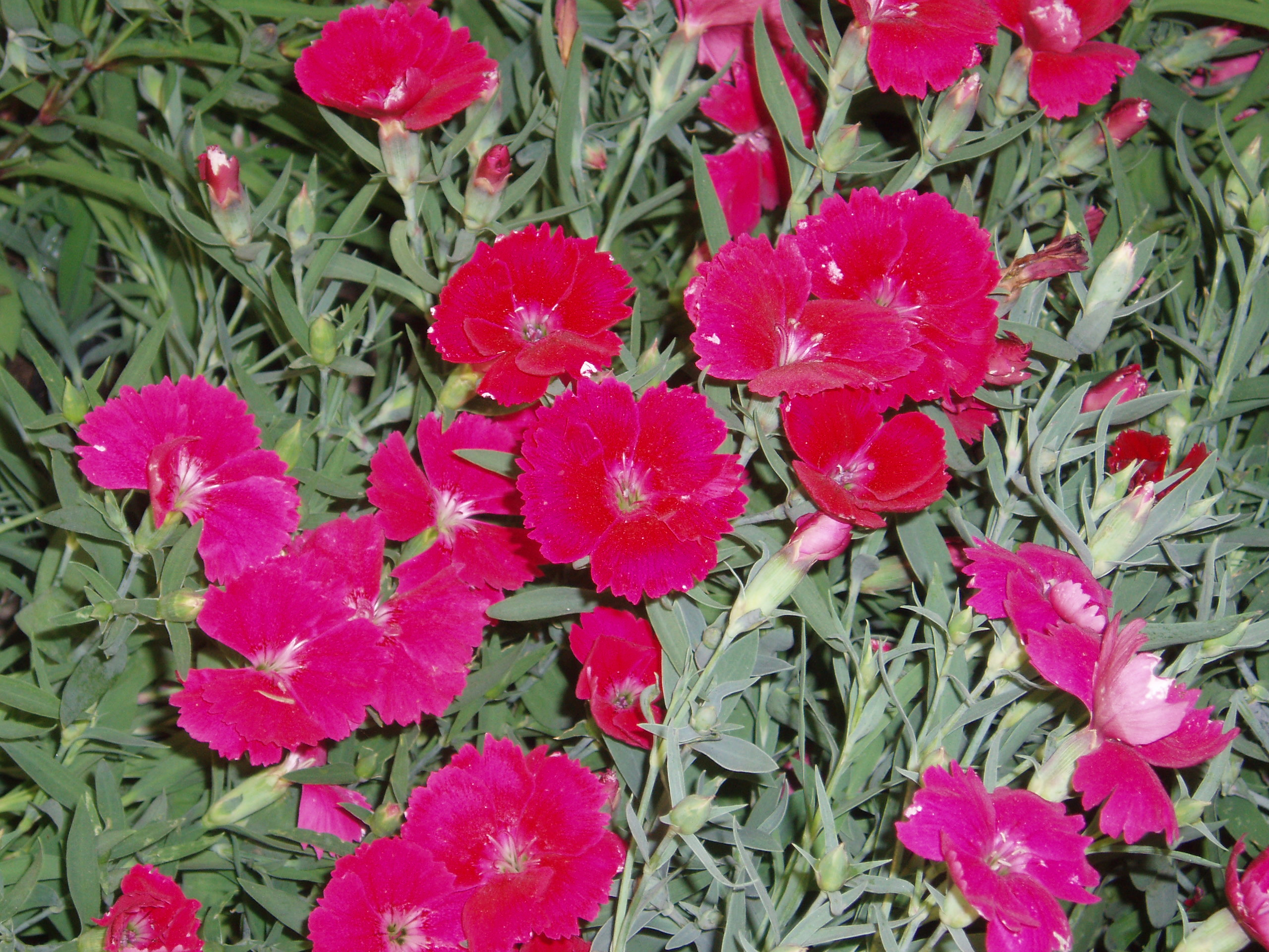 Chinese Pink flowers